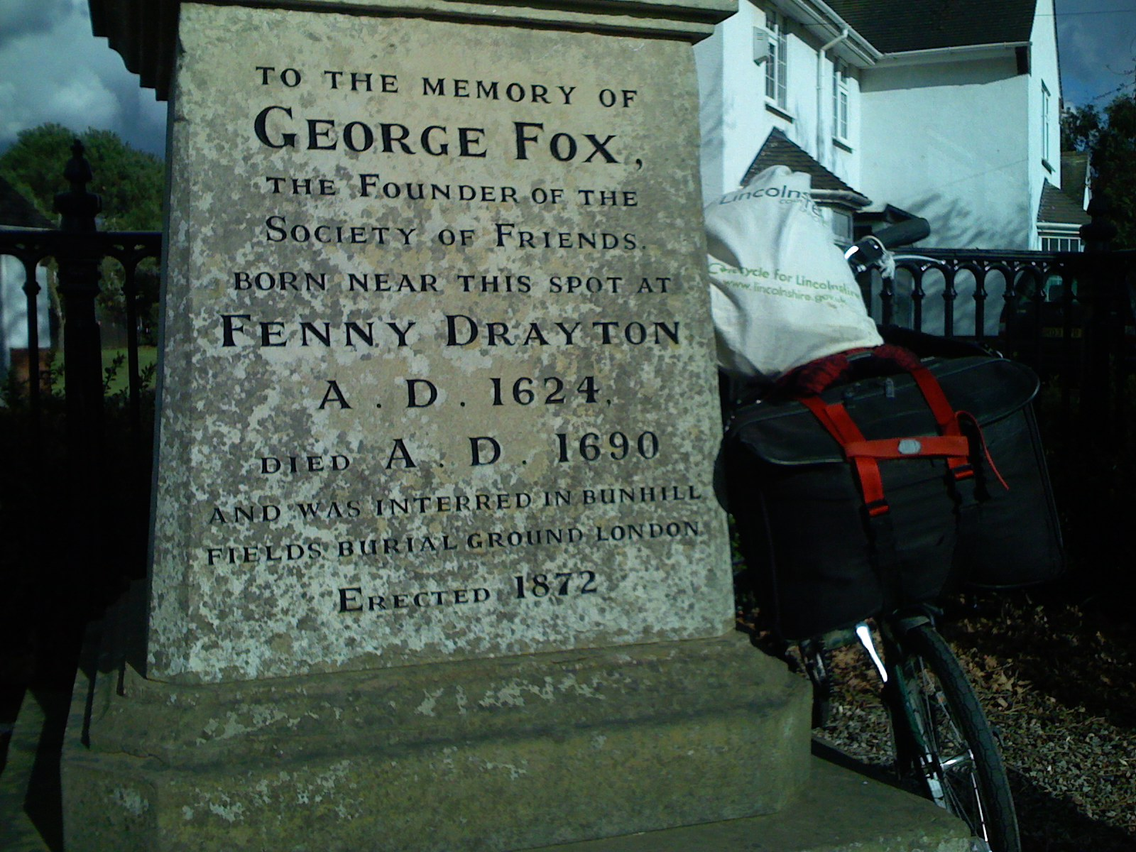 "to the memory of George Fox, the Founder of the Society of Friends. Born near this spot at Fenny Drayton A.D. 1624, died A.D. 1690 and was interred in bunhill fields burialground london. Erected 1872"